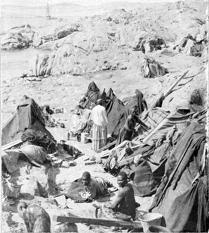 Photo of the death camp at Shark Island, German South West Africa (now Namibia)